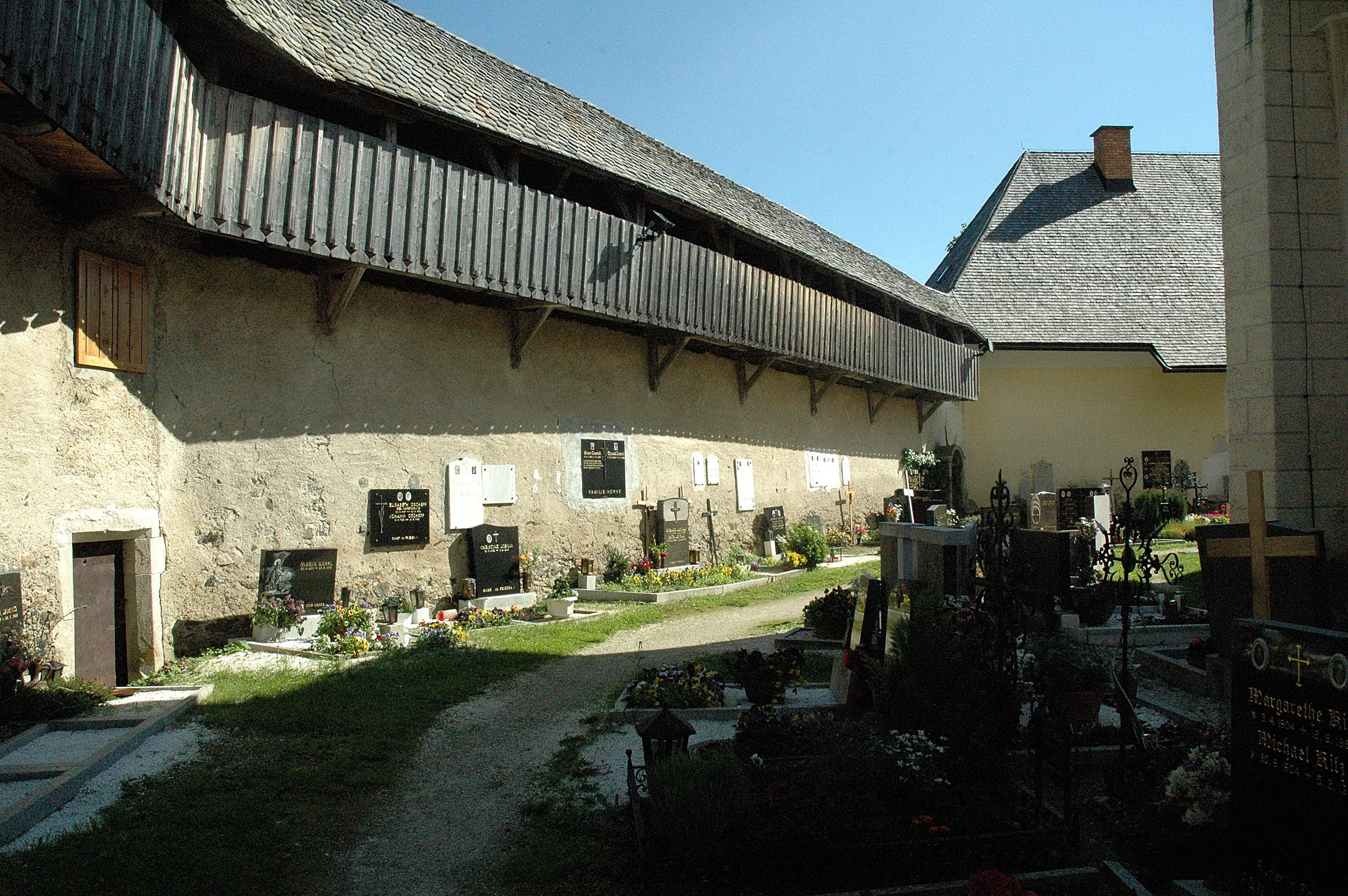 Fortification system around the cemetery, municipality Diex, district Völkermarkt, Carinthia, Austria, EU